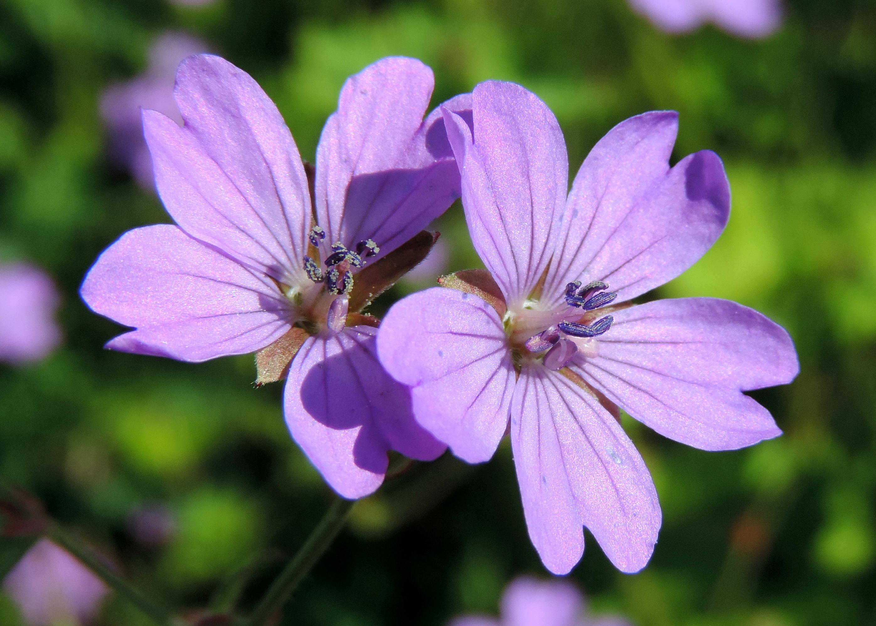 Geranium pyrenaicum, near Kołobrzeg (N Poland)